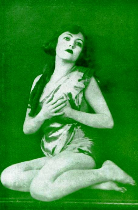 Betty Brown, sometimes listed as Betty Browne, in the 1922 Broadway musical operetta The Rose of Stamboul, on page 30 of the May 1922 Jazza-Ka-Jazza magazine. She was in the Ziegfeld Follies in 1917.